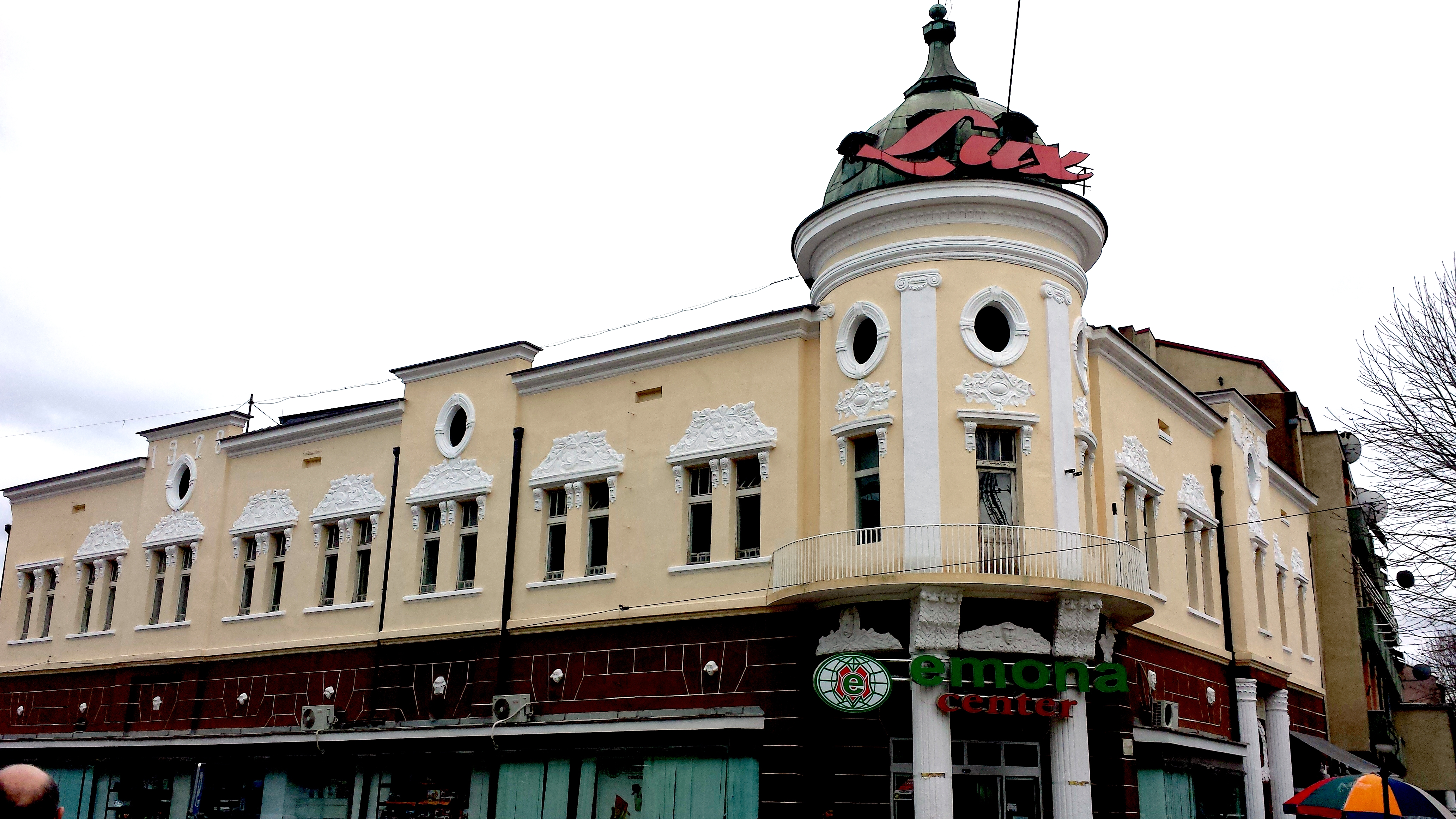 Former Jadran Hotel in the center of Mitrovica 2015, built by buisnessman Lazar Žarković in 1928